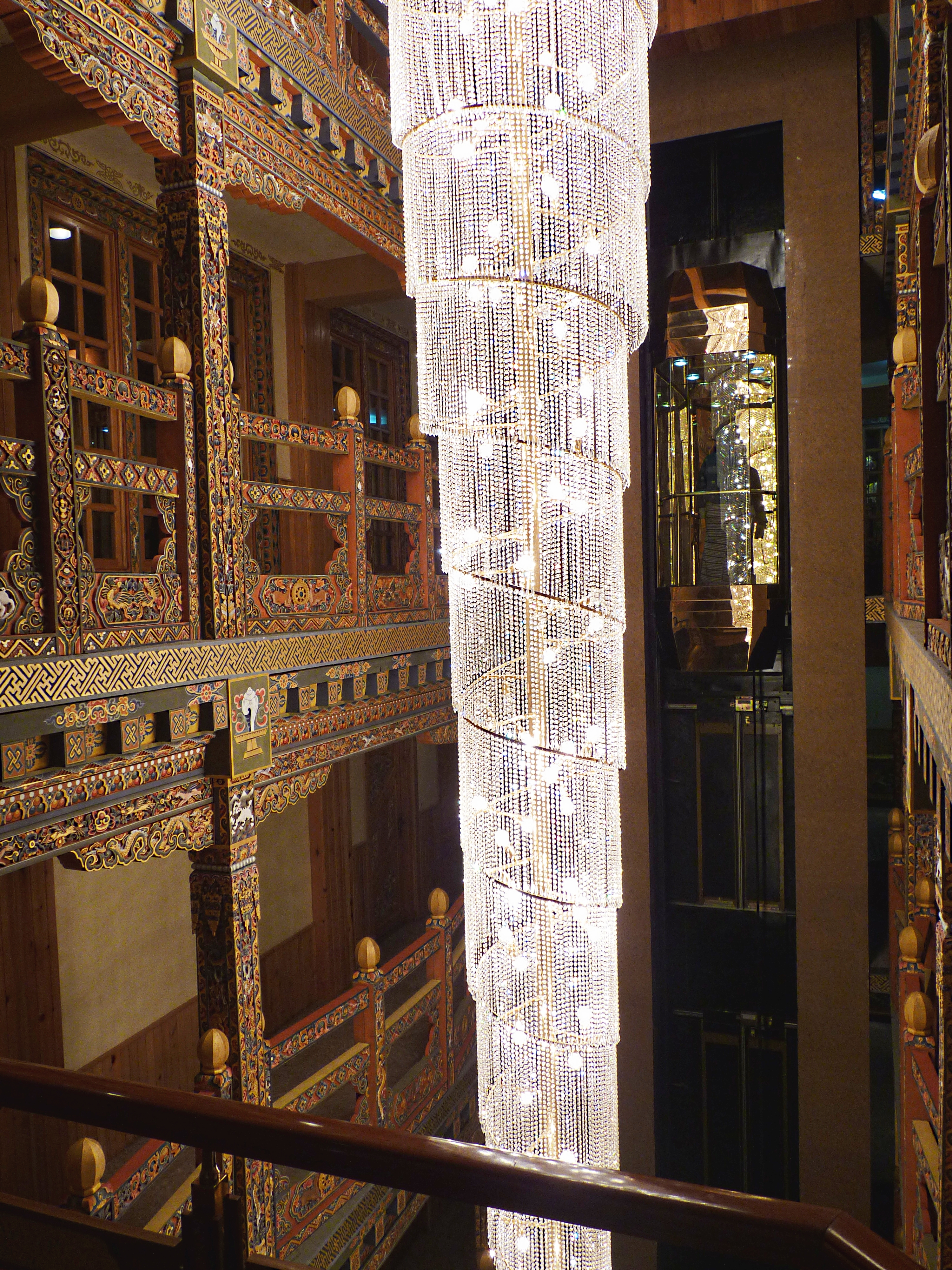 Interior of Hotel Phuntsho Pelri Thimphu